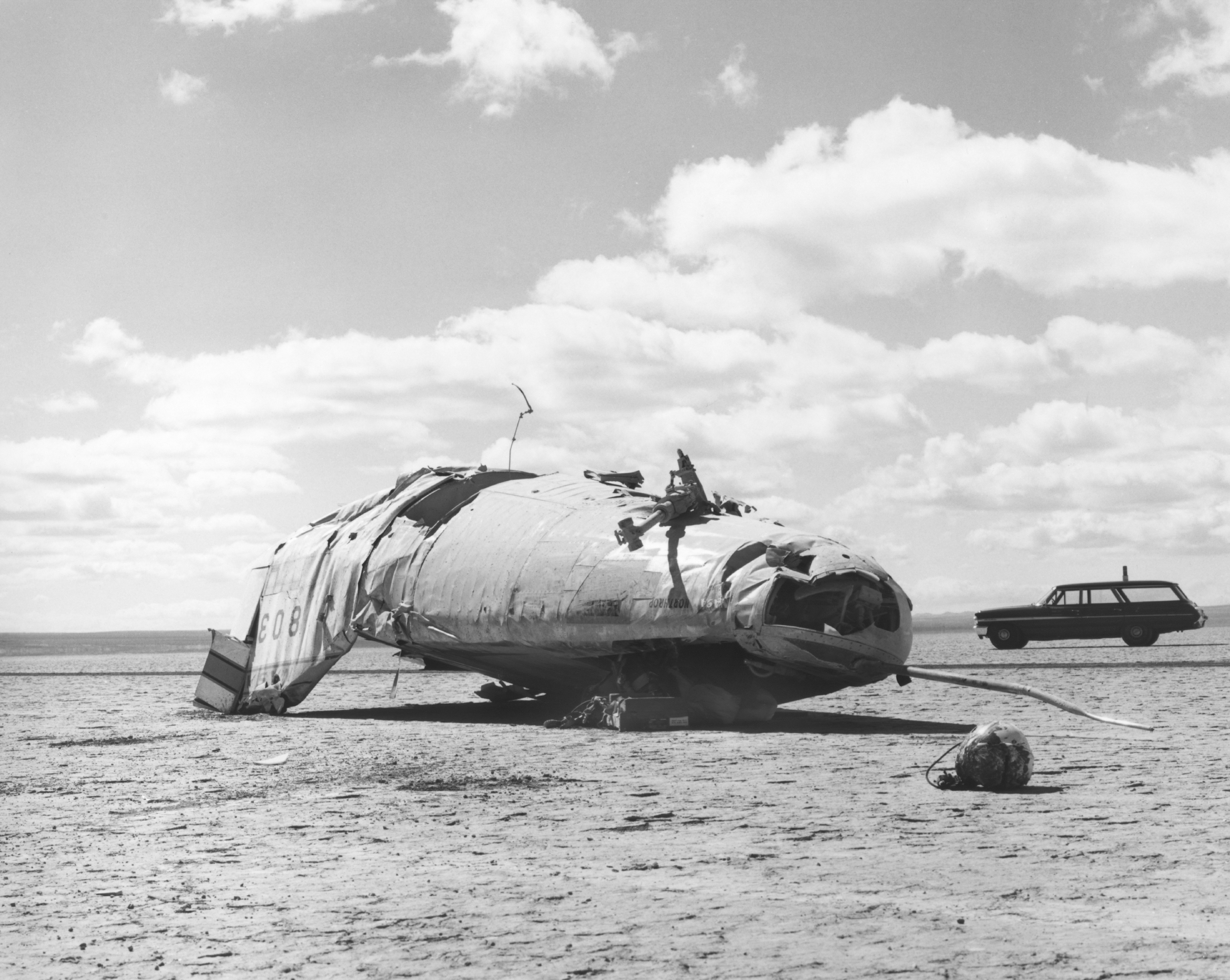 The M2-F2 lifting body made its 16th glide flight on May 10, 1967. This was to have been the last flight before igniting the XLR-11 rocket engine for powered flight. As pilot Bruce Peterson neared the lakebed, the M2-F2 suffered a pilot induced oscillation (PIO). Peterson recovered but then was distracted by a rescue helicopter that seemed to pose a risk of collision. Peterson drifted in a cross-wind to an unmarked area of the lakebed where it was very difficult to judge the height over the lakebed because of a lack of the guidance the markers provided on the lakebed runway. Although Peterson fired the landing rockets to provide additional lift, he hit the lakebed before the landing gear was fully down and locked. He rolled over six times. Pulled from the vehicle by Jay King and Joseph Huxman, Peterson was rushed to the base hospital, transferred to March Air Force Base, and then the UCLA Hospital. He recovered but lost vision in his right eye due to a staph infection.